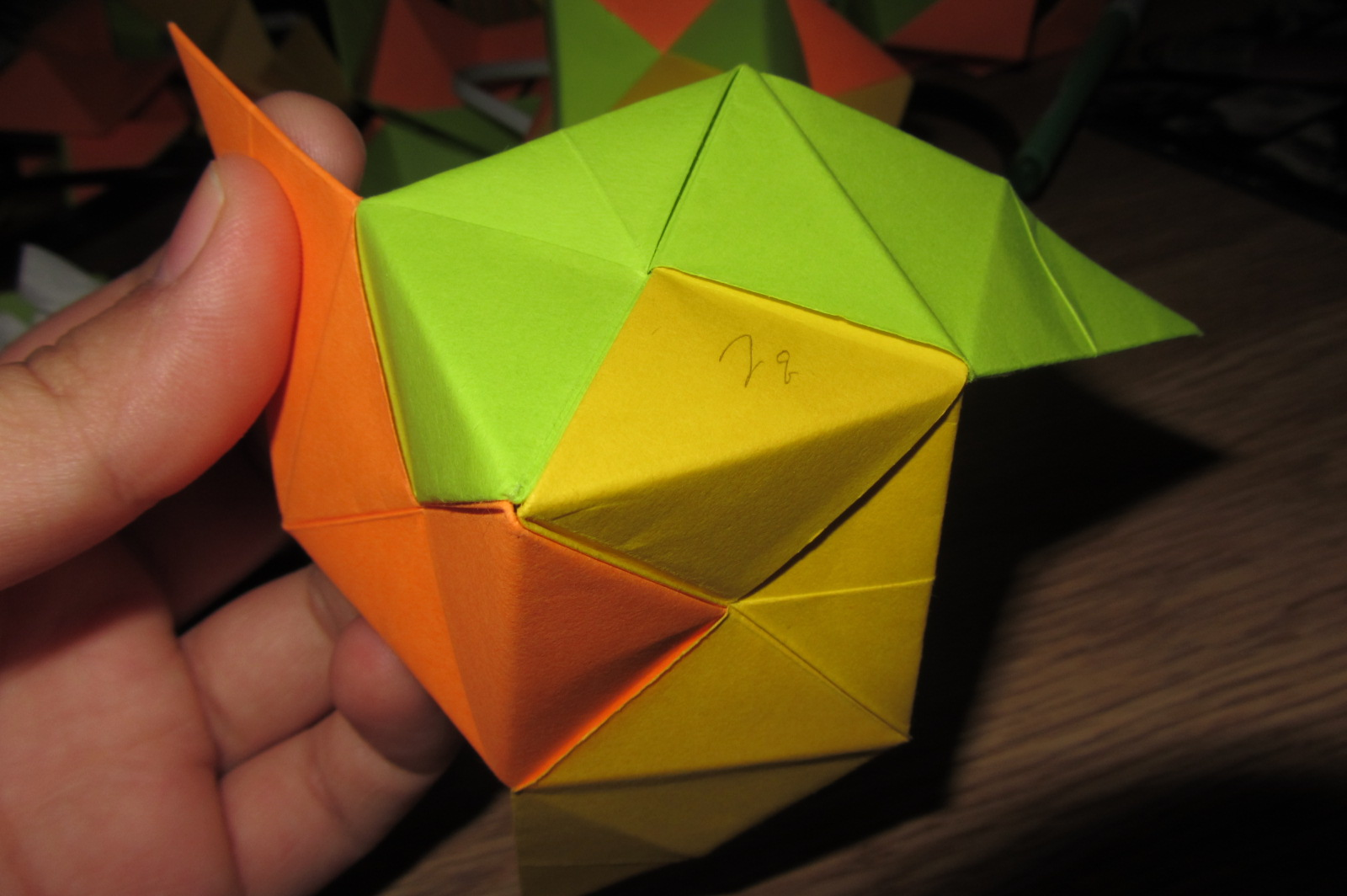 Three Sonobe units joined together in a pyramidal shape, a form more commonly known as "Toshie's Jewel"